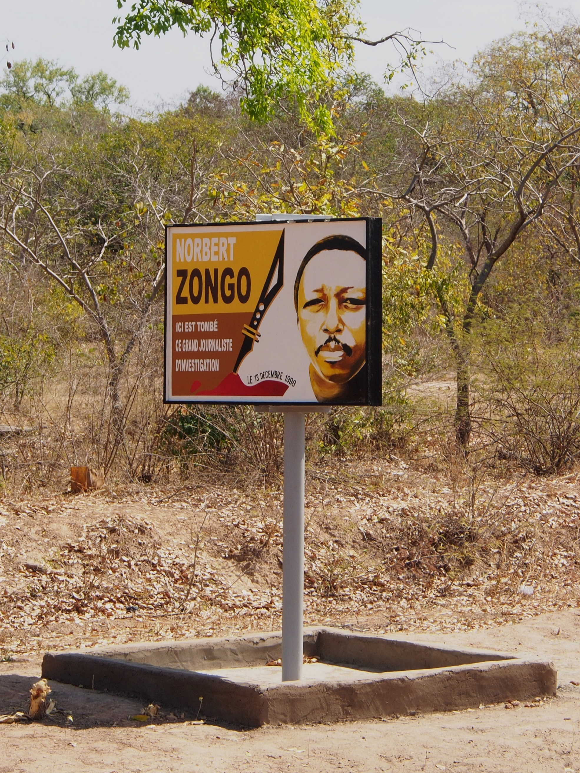 Memorial of the murder of Norbert Zongo. Highway near Sapouy, Burkina Faso